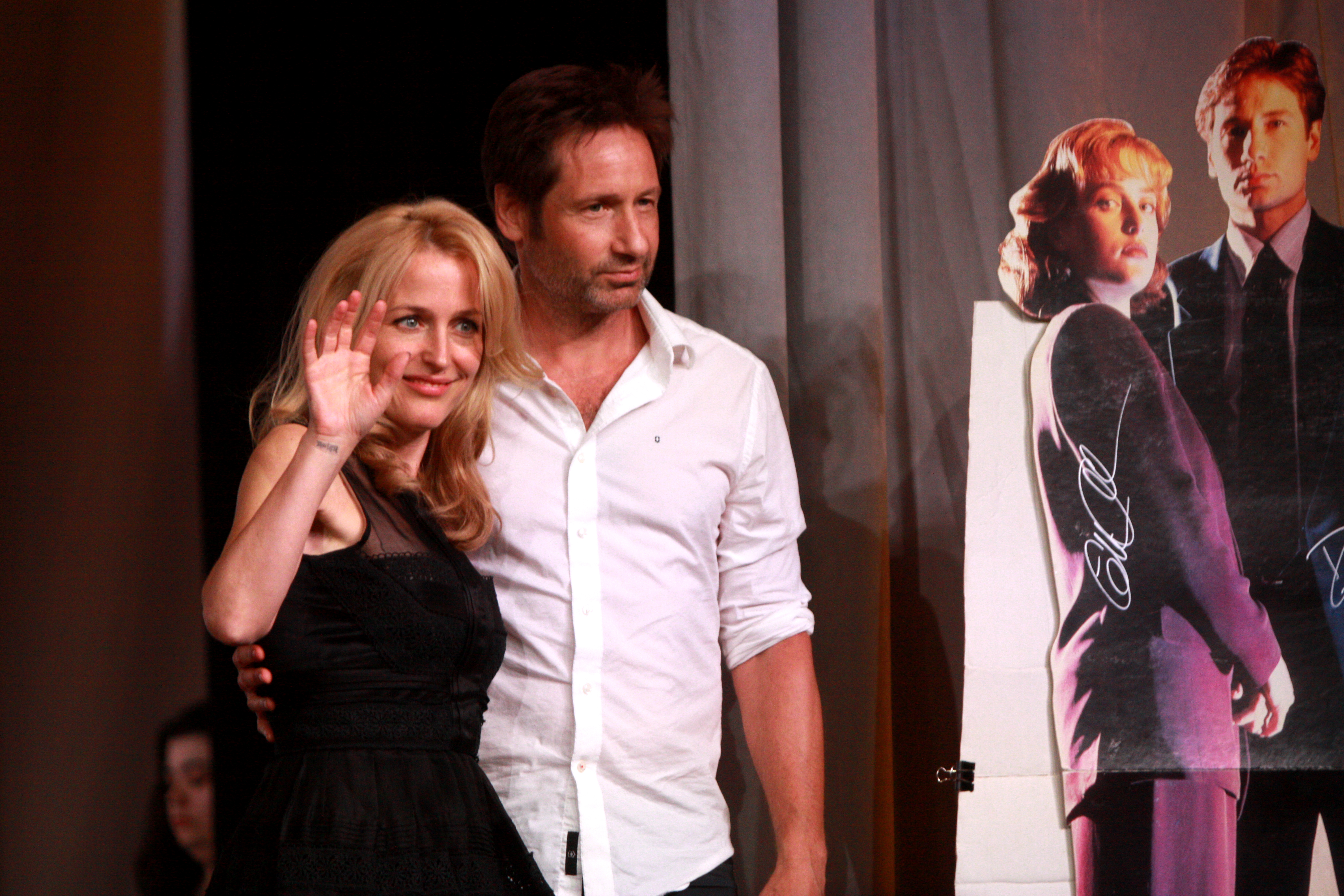 Gillian Anderson and David Duchovny speaking at the 2013 San Diego Comic Con International, for "The X-Files" 20th Anniversary panel, at the San Diego Convention Center in San Diego, California.